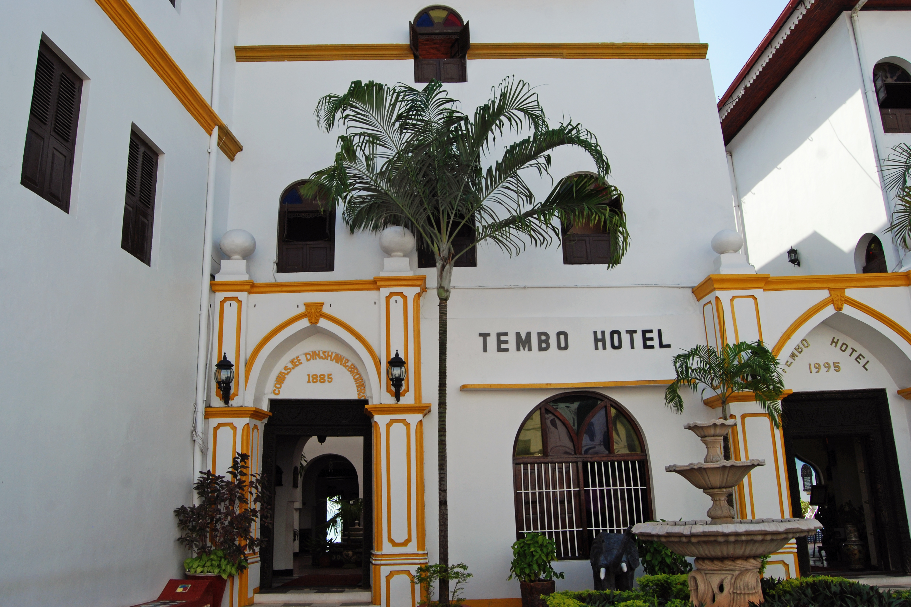 On a walk through Stone Town, Zanzibar / Between 1834 and 1884 this building served as the American Consulate in Zanzibar